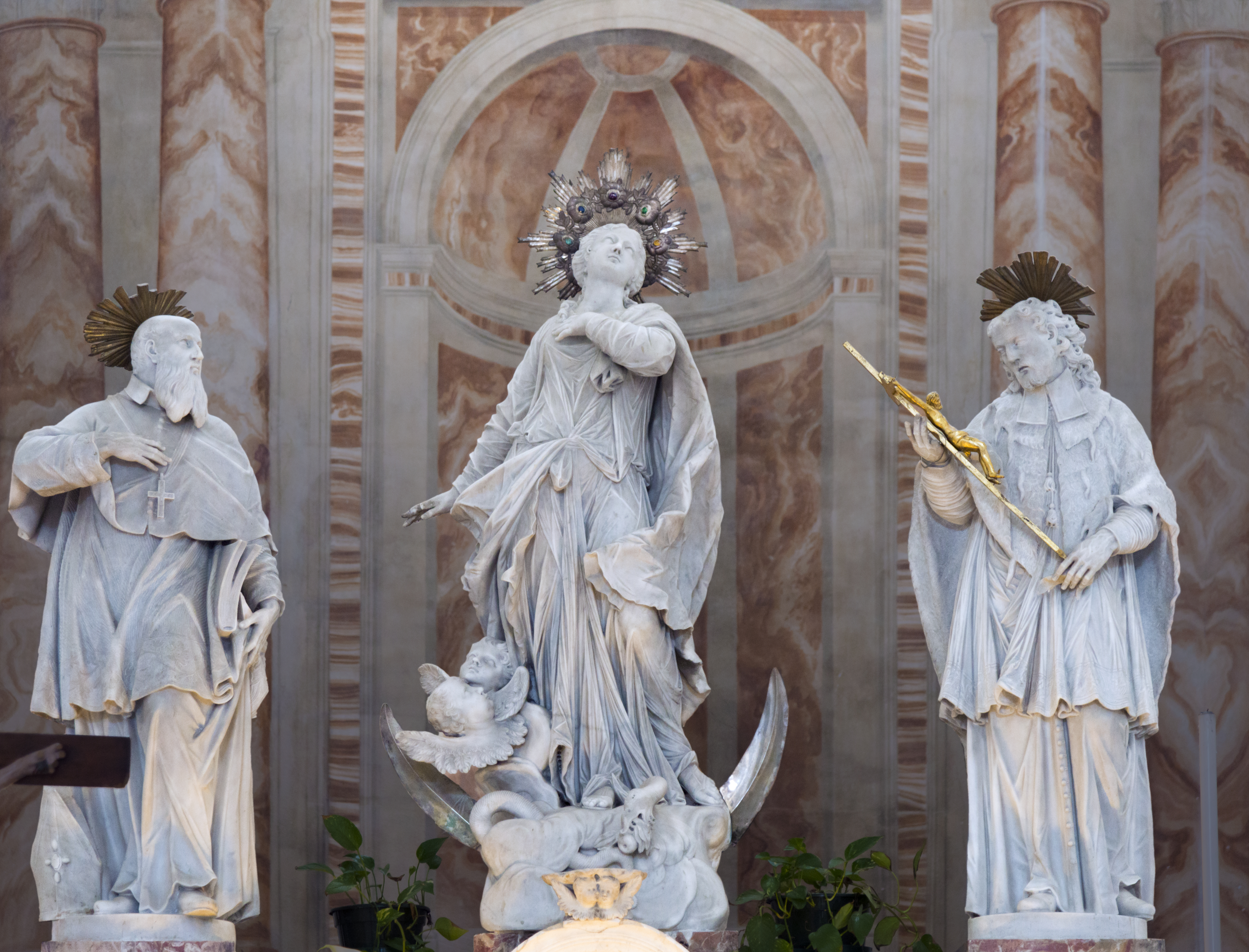 San Geremia, Venice. Virgin between St. Francis de Sales and St. John of Nepomuk; marble sculptures of "Giovanni Marchiori"